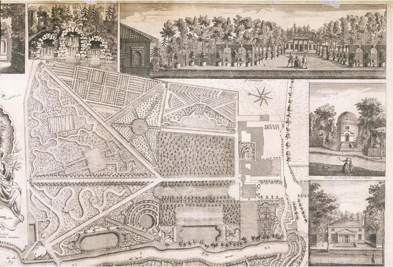 Plan du Jardin & Vue des Maisons de Chiswick, 1736, Jean Rocque V&A Museum no. E.352-1944 Techniques - Etching and engraving, ink on paper Place - London, England Dimensions - Height 62 cm (paper) Width 80 cm (paper) Object Type - This print by Jean Rocque combines two printmaking techniques - etching and engraving. Both involved creating a pattern of grooves to hold ink in a metal printing plate. The image on the printing plate was the reverse of the final image. The etched lines were made using acid, while the engraved lines were scored by means of a sharp tool called a burin. The grooves were then filled with ink and the image was transferred onto a blank sheet of paper. Subject Depicted - Jean Rocque has combined a map of the gardens of Chiswick House at the centre of this print, with a series of views of the house and garden around the margins. The house is just to the left of the middle of the three views running down the right-hand edge. It is also depicted in three of the four scenes along the bottom edge. In the bottom right-hand corner is a view of the side of the house that faces the garden. Next to this is a view of the front of the building, and then a view of the side. Trading - Jean Rocque (active from 1730, died in 1762) was a French surveyor, mapmaker and printmaker. He was living in London at the time he made this print. The lettering on it says it could be bought from 'the Proprietor at ye Canister and Sugar Loaf in Great Windmill Street St James's'. This suggests the print was being sold not from a print shop but from the premises of a grocer or tea merchant, in the French quarter of Soho in London. Perhaps Rocque was lodging there with a fellow countryman.